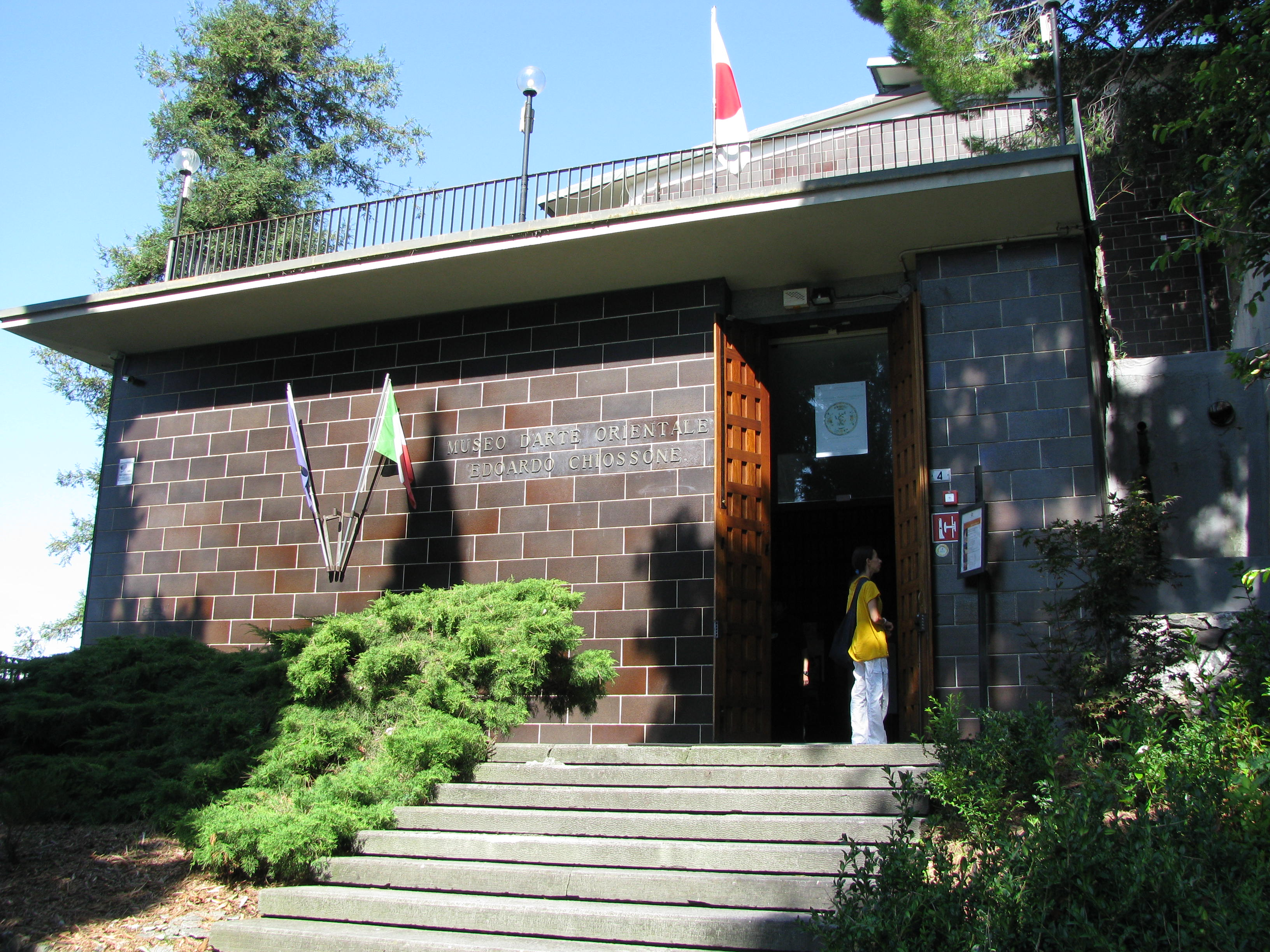 Entrance to the Museo d'arte orientale Edoardo Chiossone in Genoa